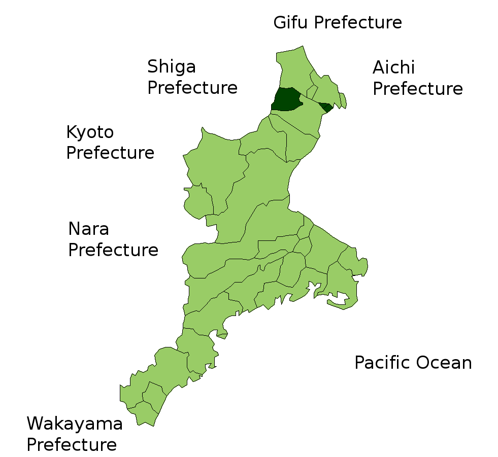 Location Map of Mie District in Mie Prefecture, Japan